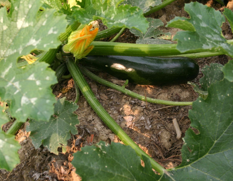 Zuchinni or corgette fruit and spent flower on plant